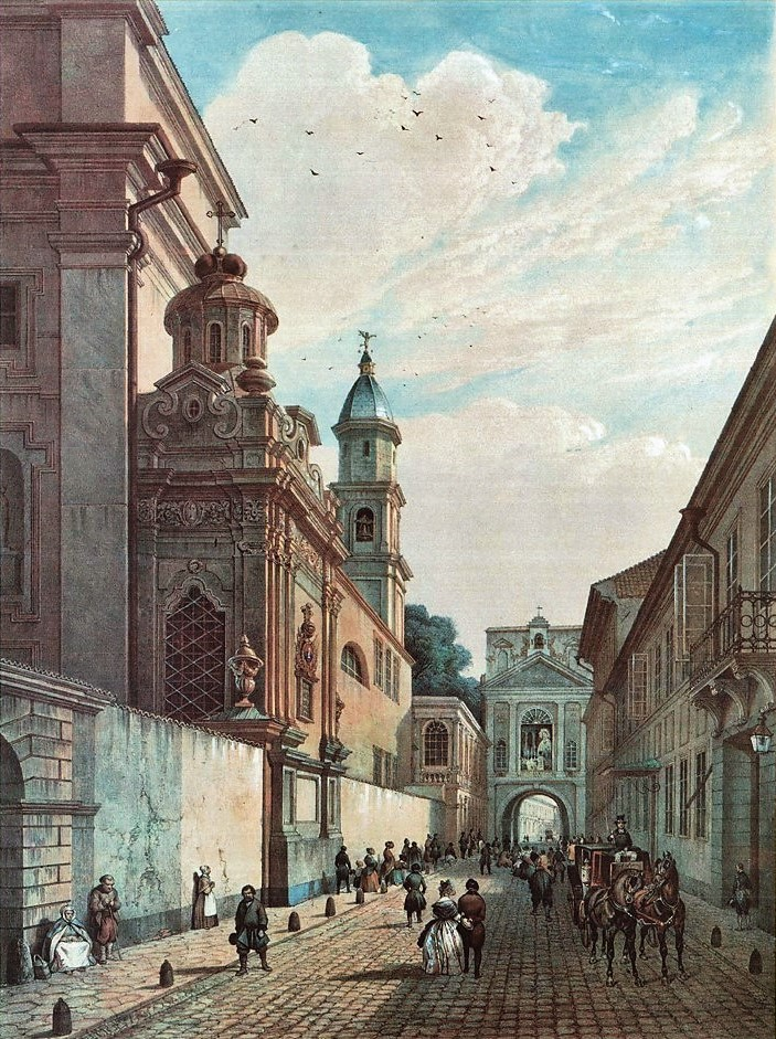 Ostra Brama in Wilno (Vilnius)